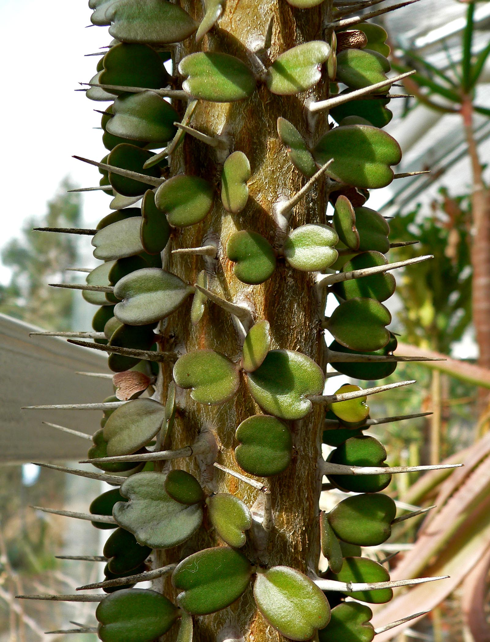 Photo of Alluaudia ascendens at the University of California Botanical Garden